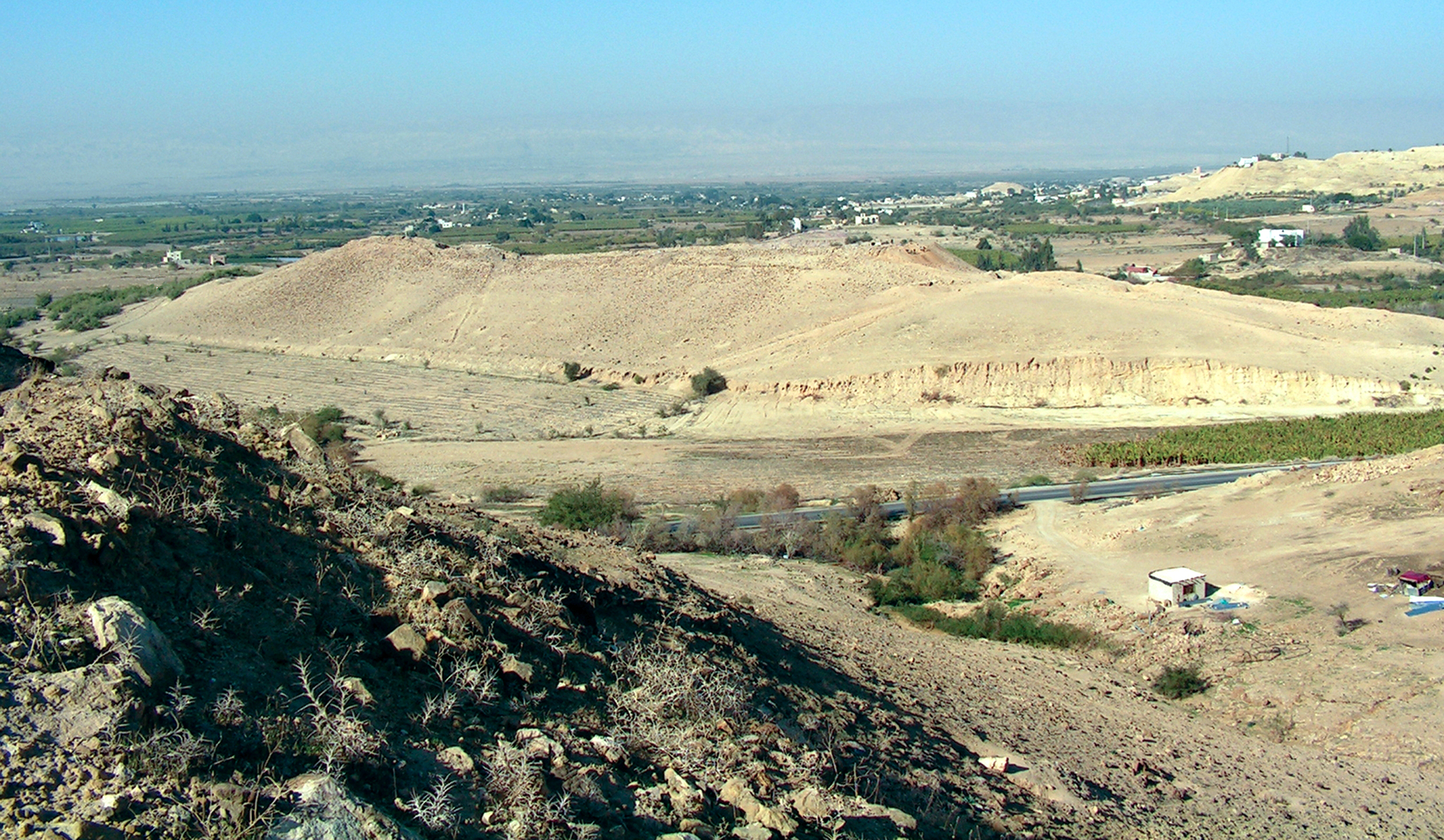 The archaeological site of Tall el-Hammam, Jordan that overlooks the Jordan Valley. Jericho is visible on the horizon and Tall Kefrein is visible in the distance on the right side out on the valley.